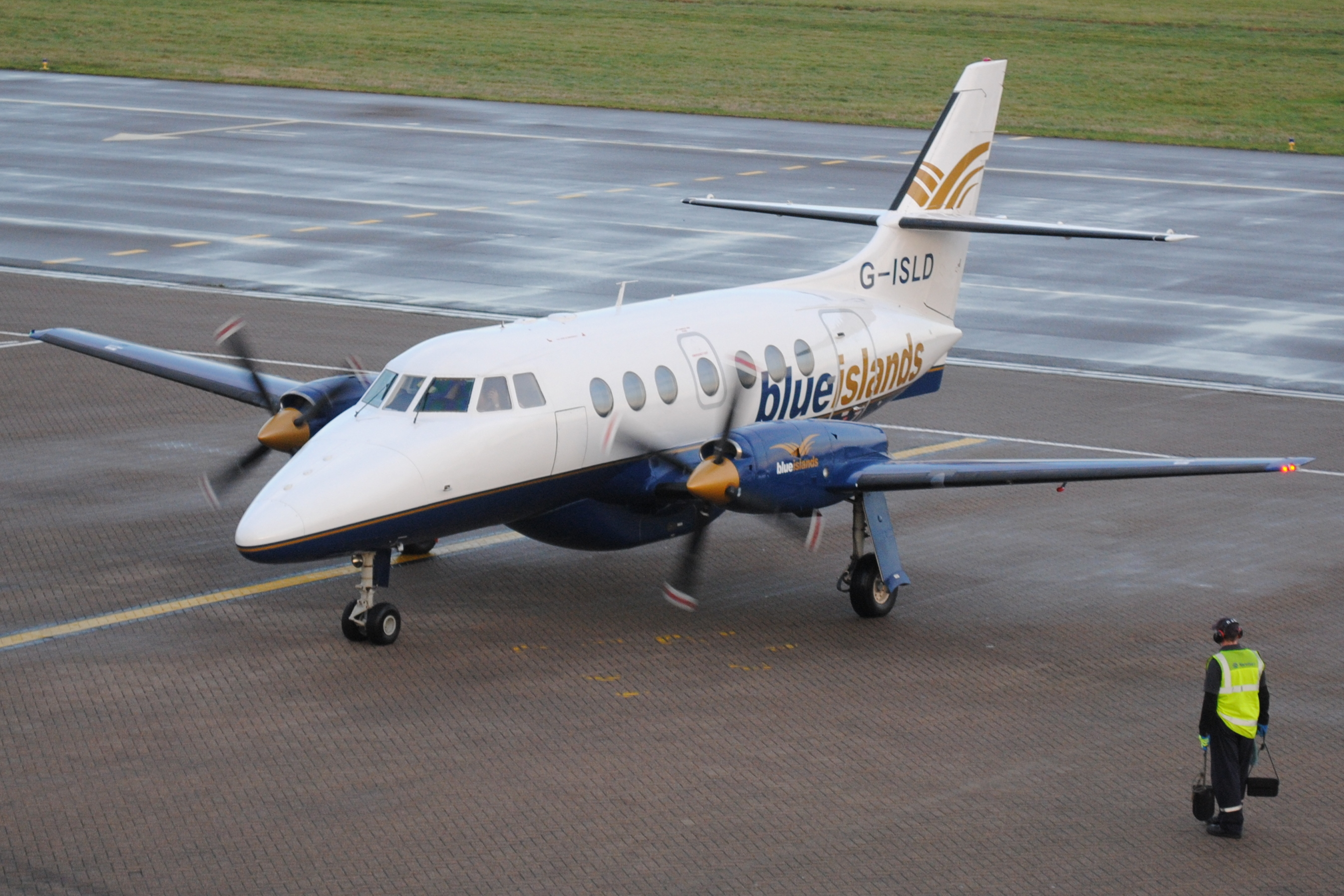 G-ISLD BAe Jetstream 31 Blue Islands